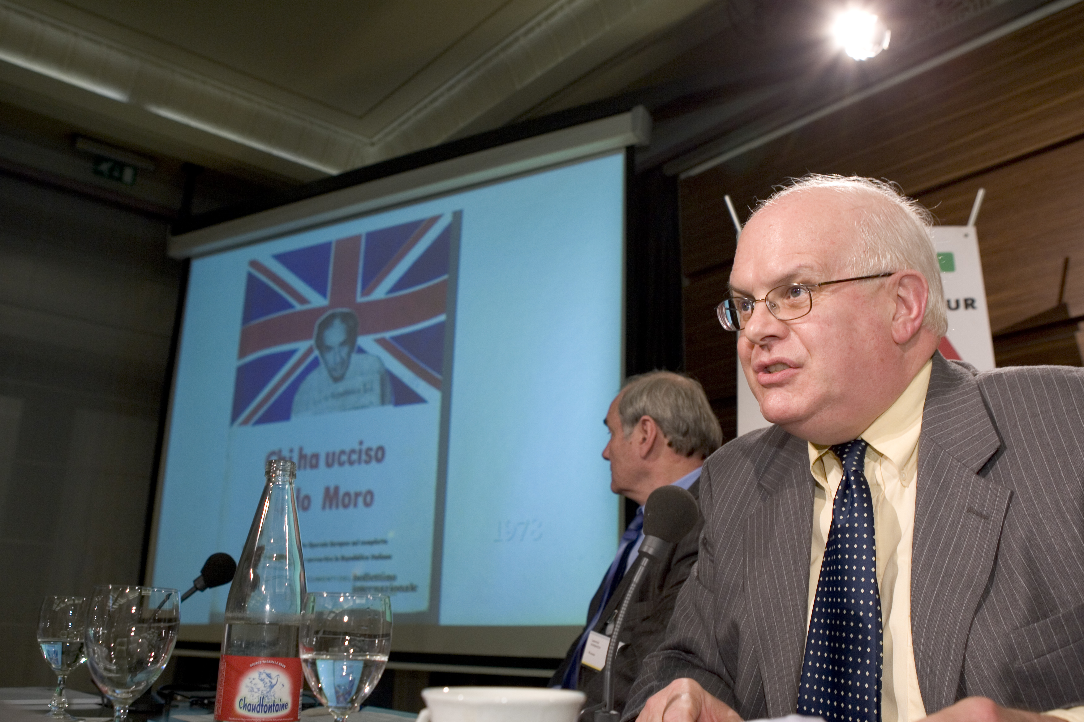 Webster Tarpley, author, journalist, lecturer, and critic of United States foreign and domestic policy, attending the Axis for Peace conference round table, 2005